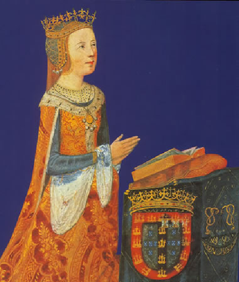 Miniature depiction of Queen Leonor, wife of King John II of Portugal, on her Book of Hours. Lisbon, National Library.